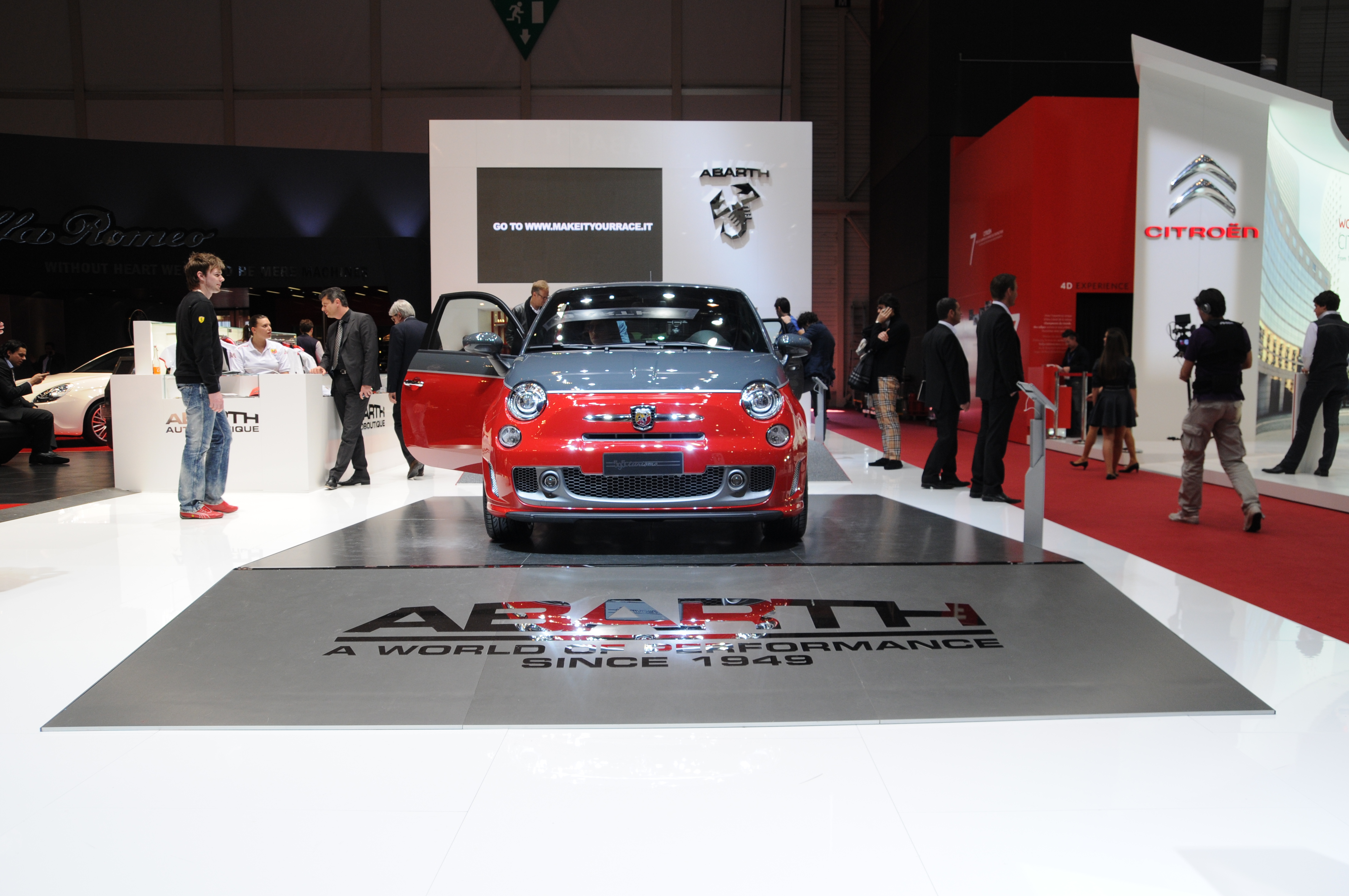 Geneva Motor Show 2012 (photos taken on the second press day)